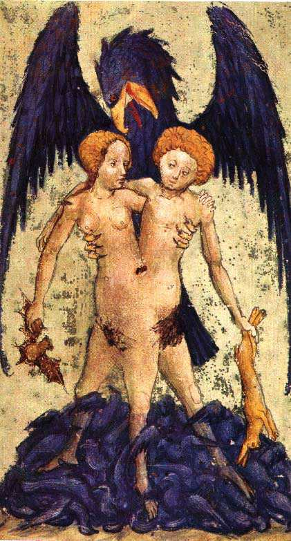 An illustration of a hermaphrodite from the Aurora consurgens.